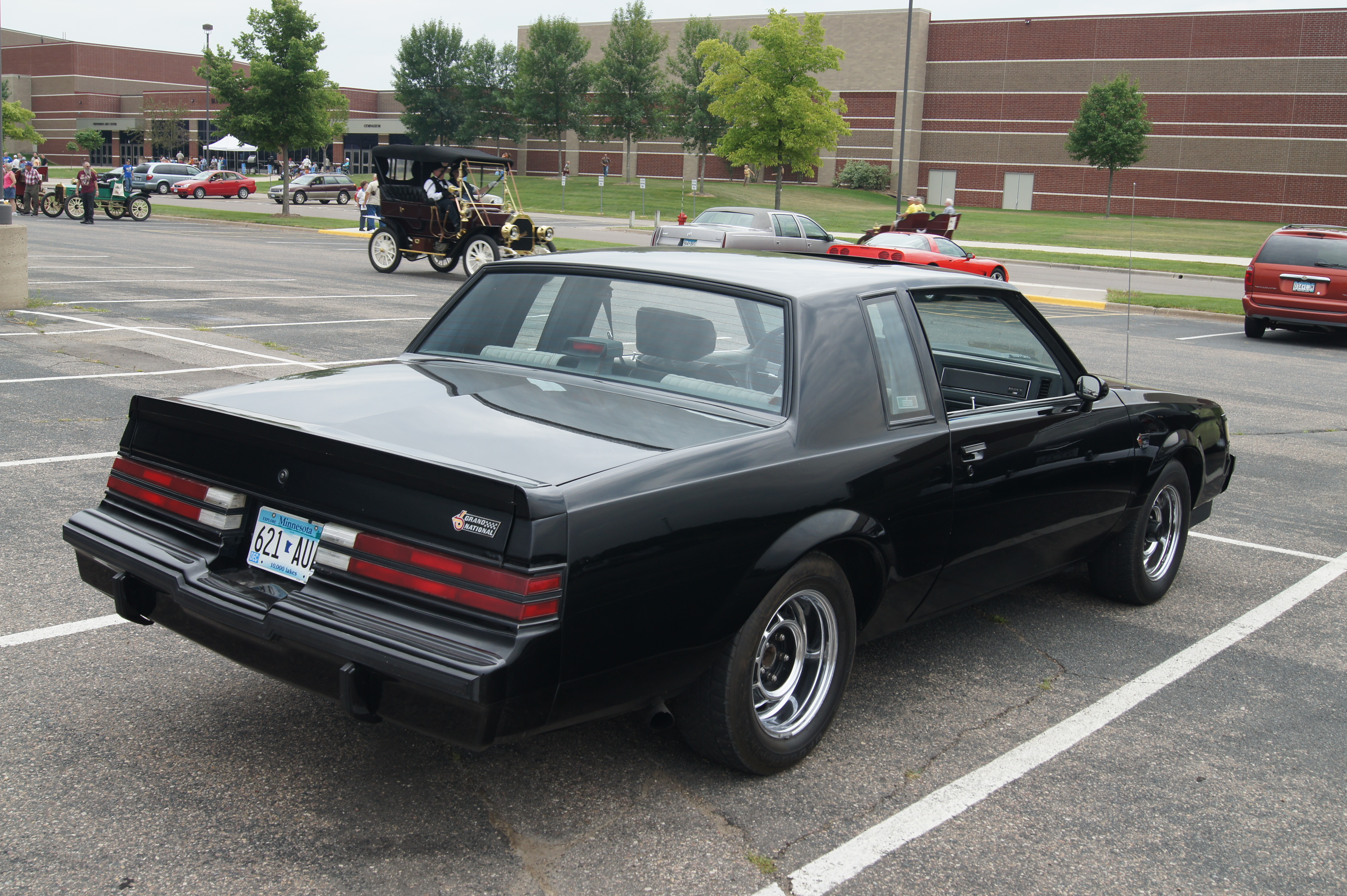 28th Annual New London to New Brighton Antique Car Run Lunch Stop Buffalo High School Buffalo Minnesota Mile 78.8 More Car Pictures